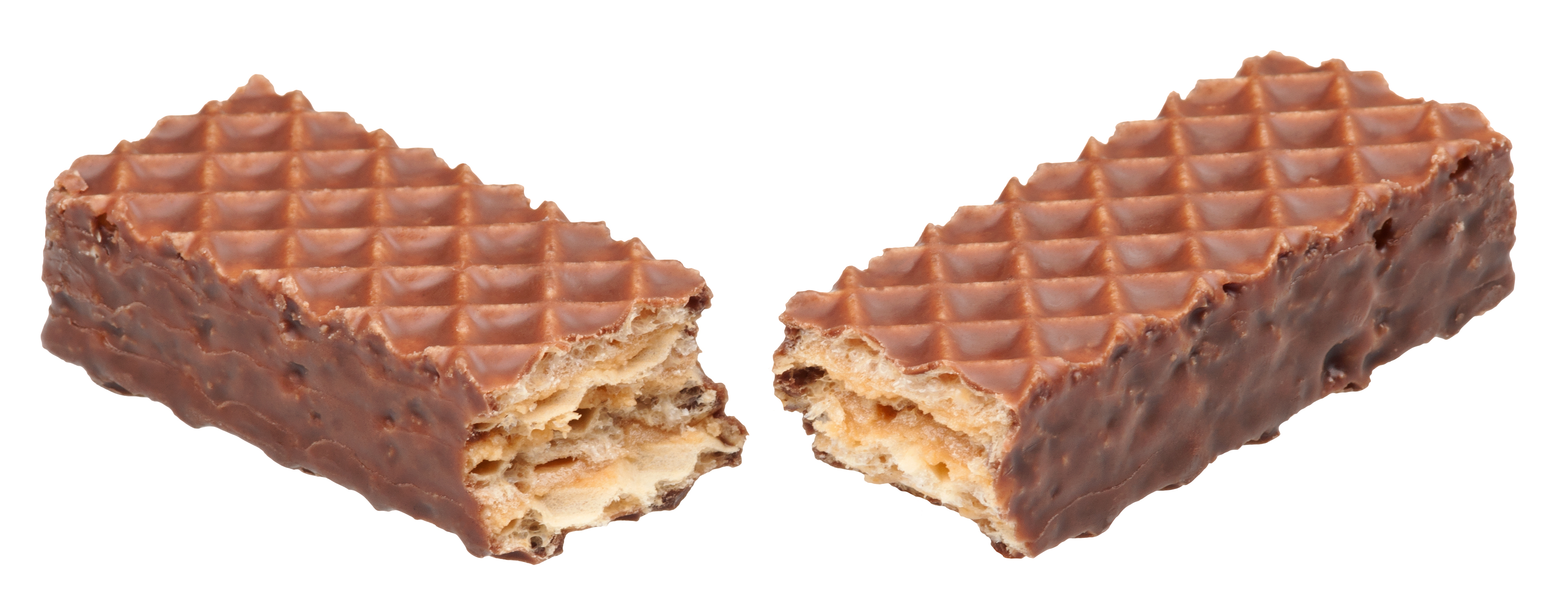 Little Debbie Nutty Bar, shown split in half